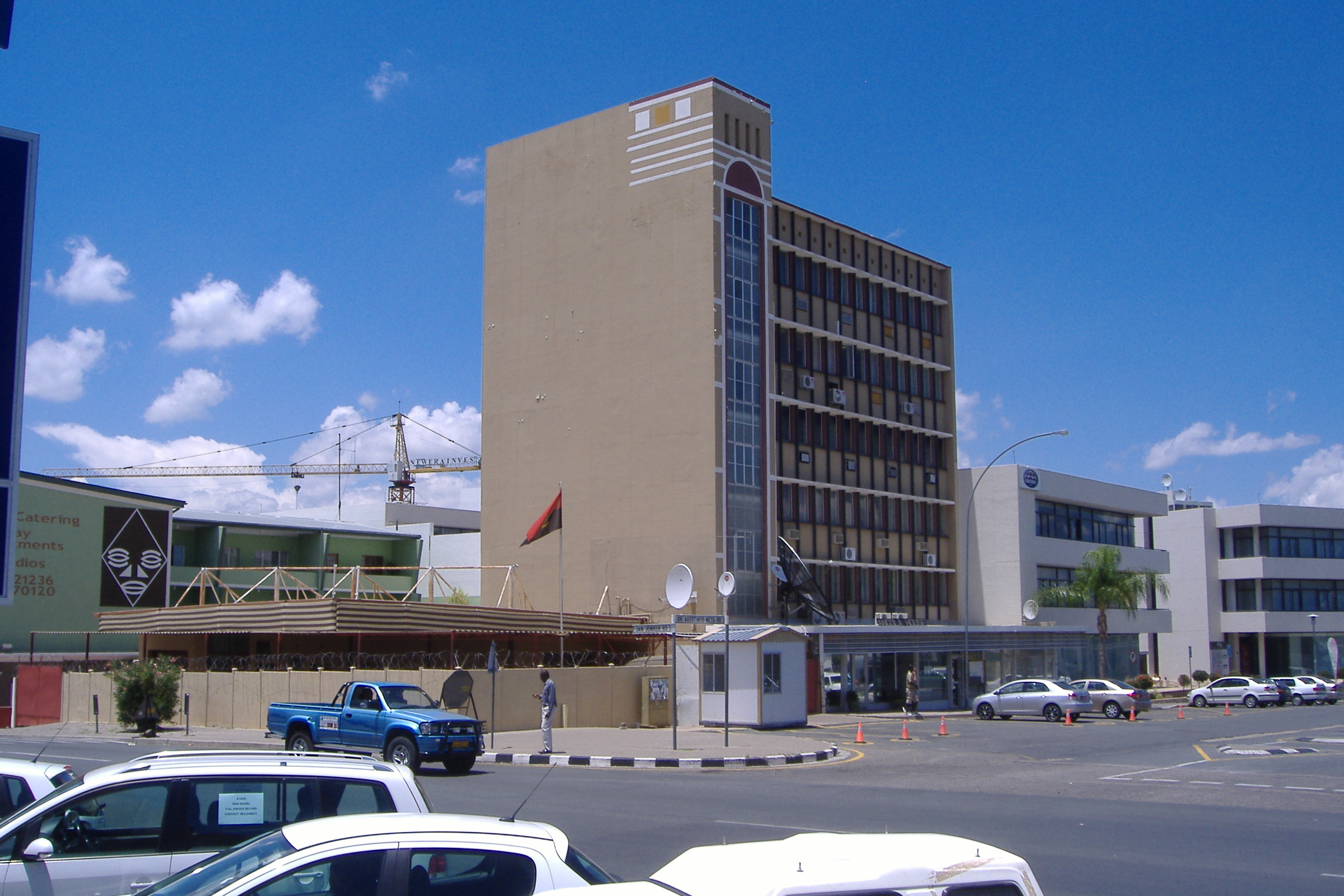 AN in NA